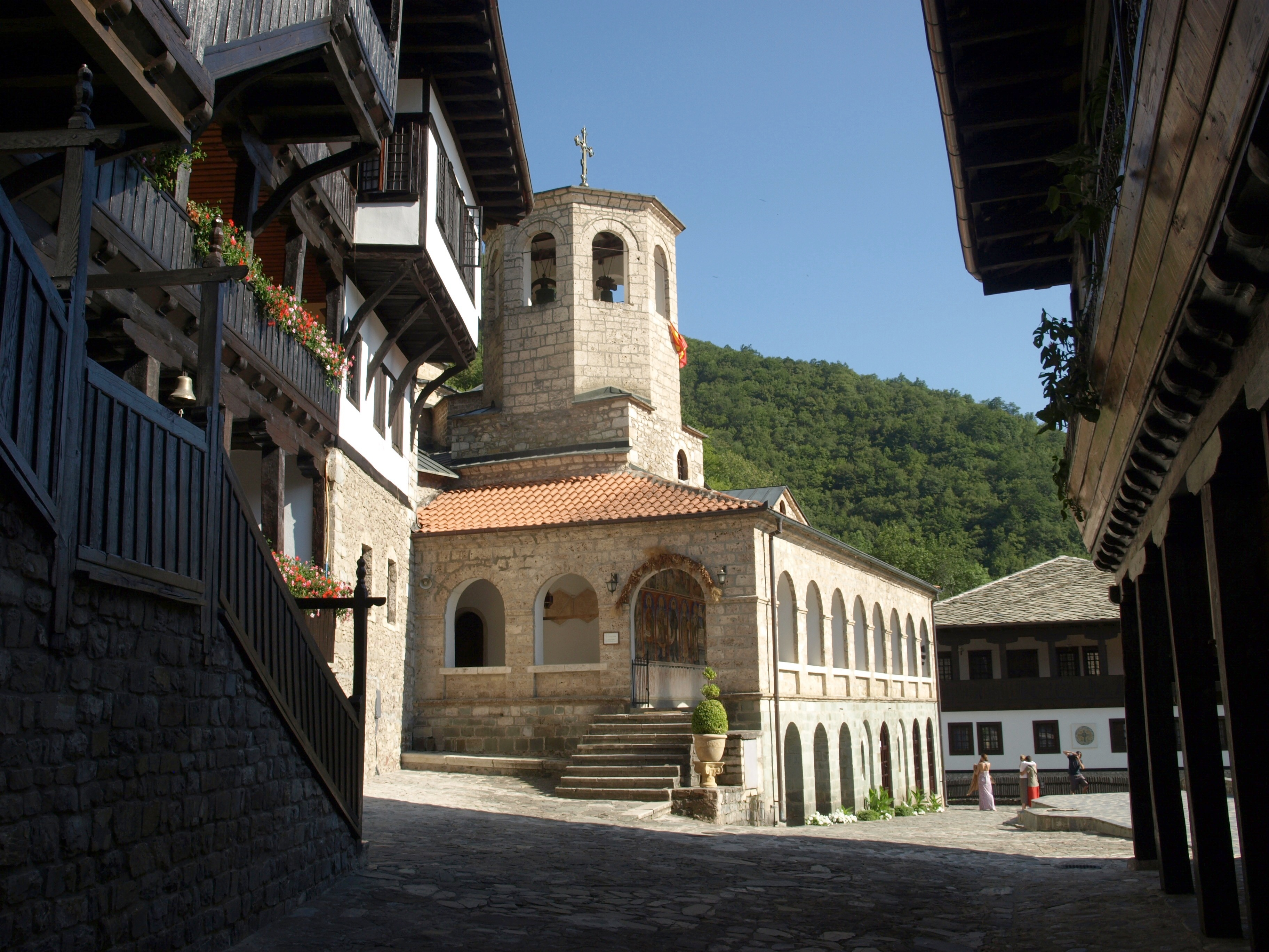 Monastery Sveti Jovan Bigorski in Macedonia, church